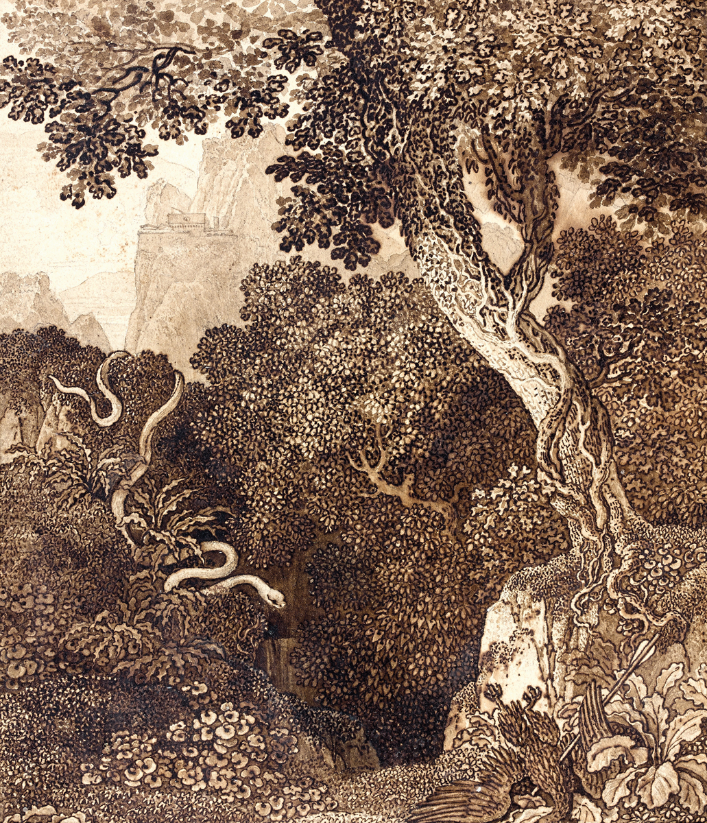 A sepia drawing by Anne-Louis Girodet, Paysage montagneux avec un serpent s’approchant d’un aigle transpercé par une flèche (A mountain landscape with a snake advancing on a wounded eagle), 1793/5